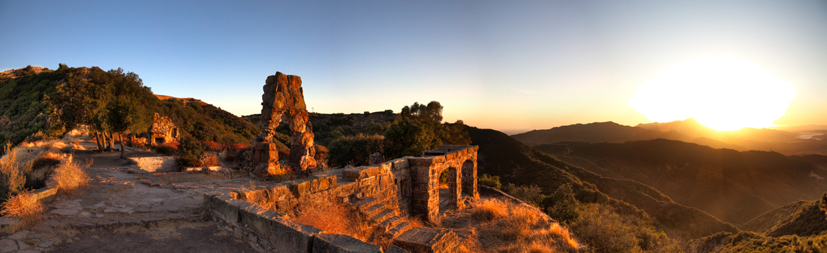 Knapp's Castle ruins at sunset — in the Santa Ynez Mountains, Los Padres National Forest, Santa Barbara County, California.